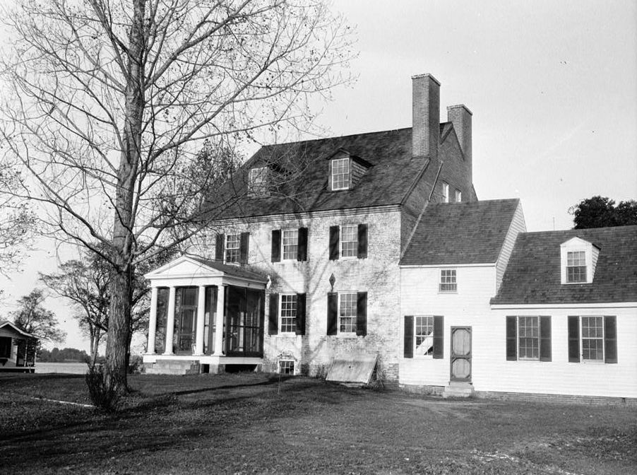 Cherryfield, or Porto Bello, Saint Mary's County, Maryland, USA